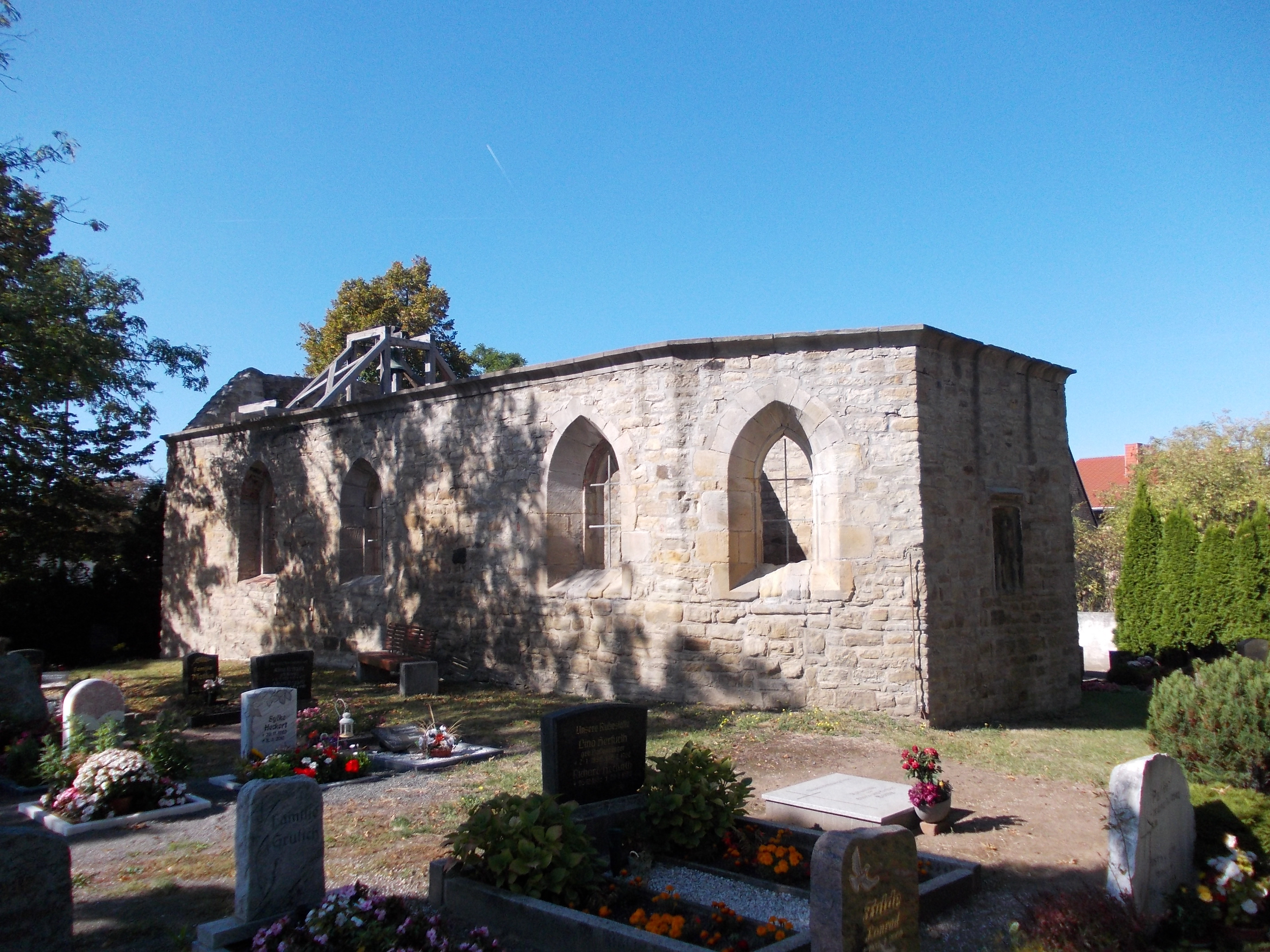 St. Anne's Church in Göhlitzsch (Leuna, district of Saalekreis, Saxony-Anhalt)